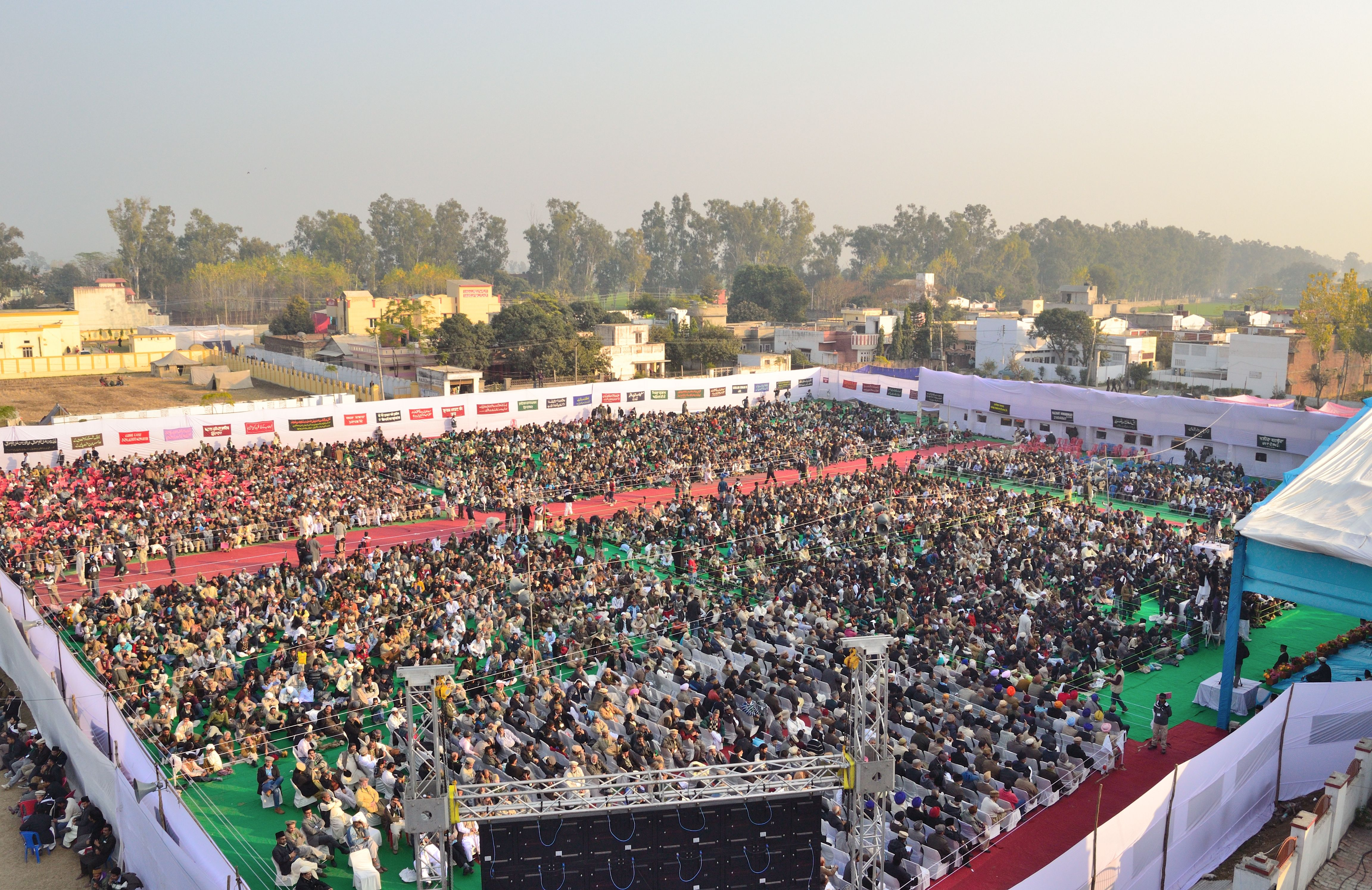 A scene of the 120th Jalsa Salana Qadian 2011. Here Gent area